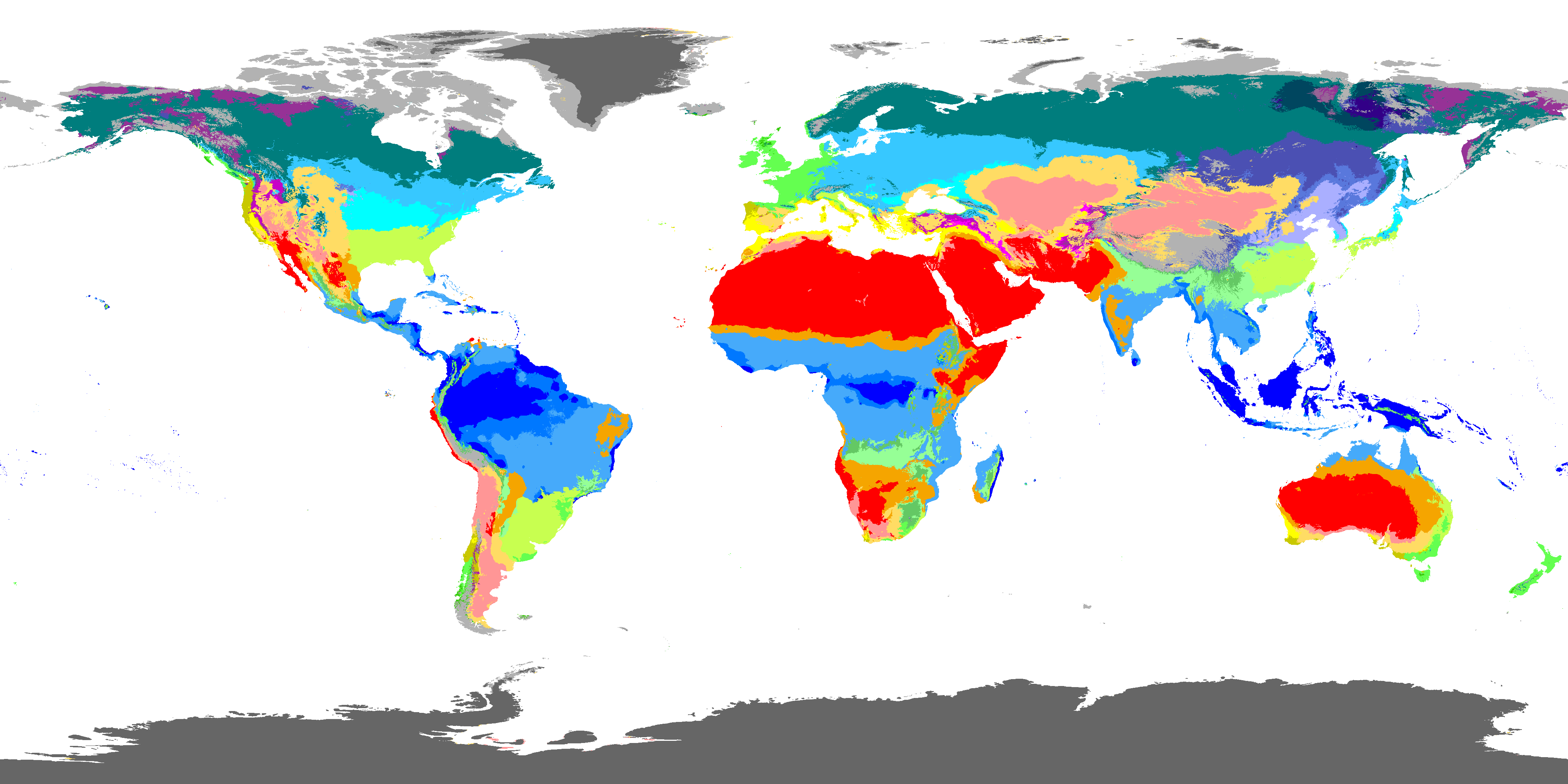 An equirectangular world map showing the Köppen-Geiger climate classifications between 1980 and 2016. Legend of the Köppen–Geiger climate classification [ view | edit ] Tropical Arid (dry) Temperate Cold (continental) Polar Af Am BWh BWk Csa Cwa Cfa Dsa Dsb Dwa Dwb Dfa Dfb ET Aw As BSh BSk Csb Csc Cwb Cwc Cfb Cfc Dsc Dsd Dwc Dwd Dfc Dfd EF